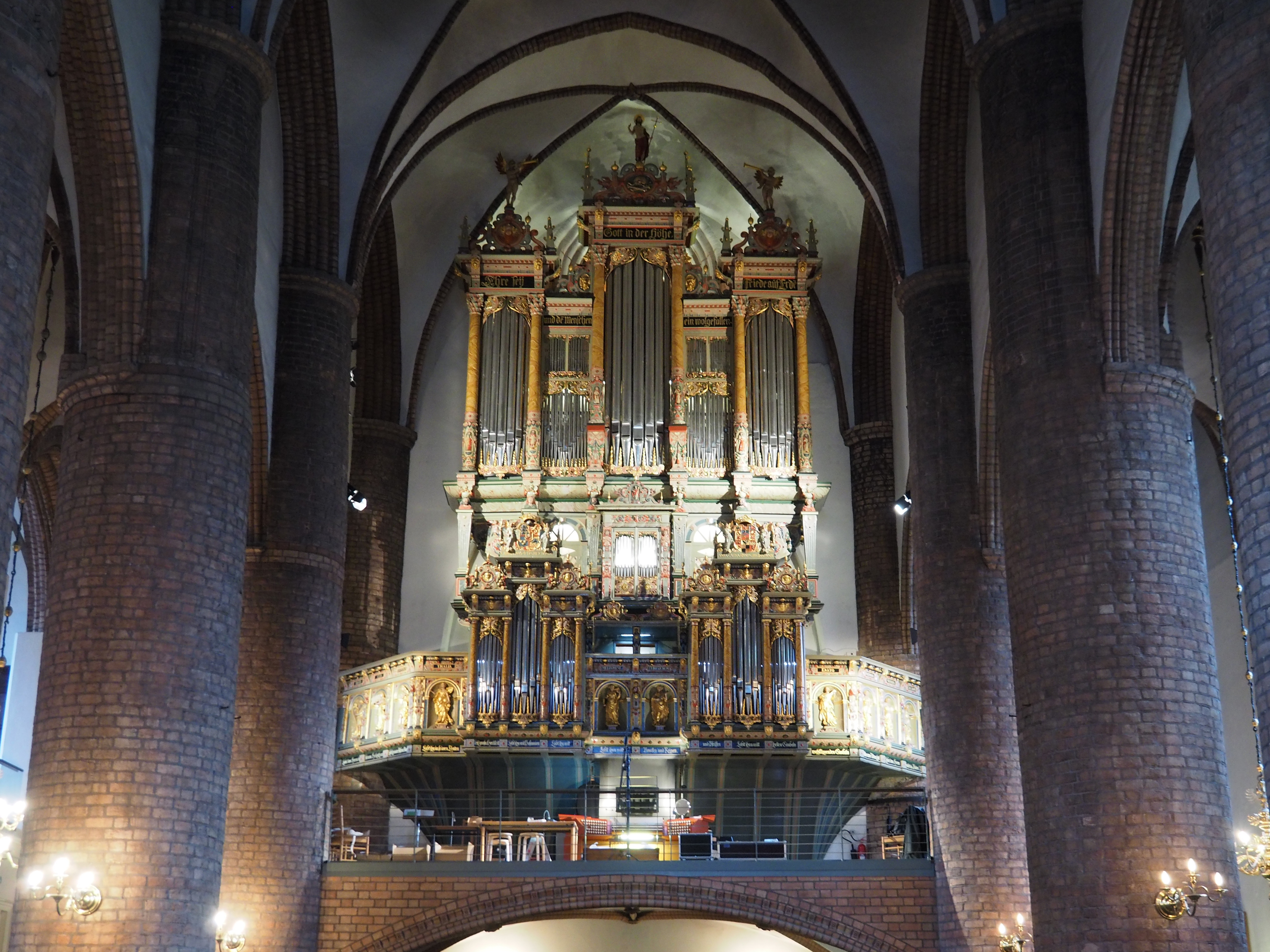 Flensburg, Nikolaikirche (St. Nicholas Curch), pipe organ